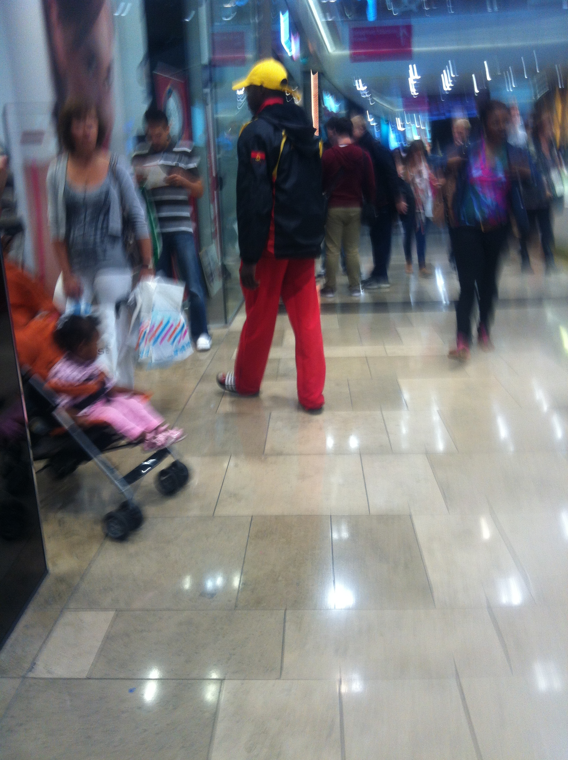 This picture was taken in a public area and is not subject to Paralympic licensing restrictions because it was not in a venue.